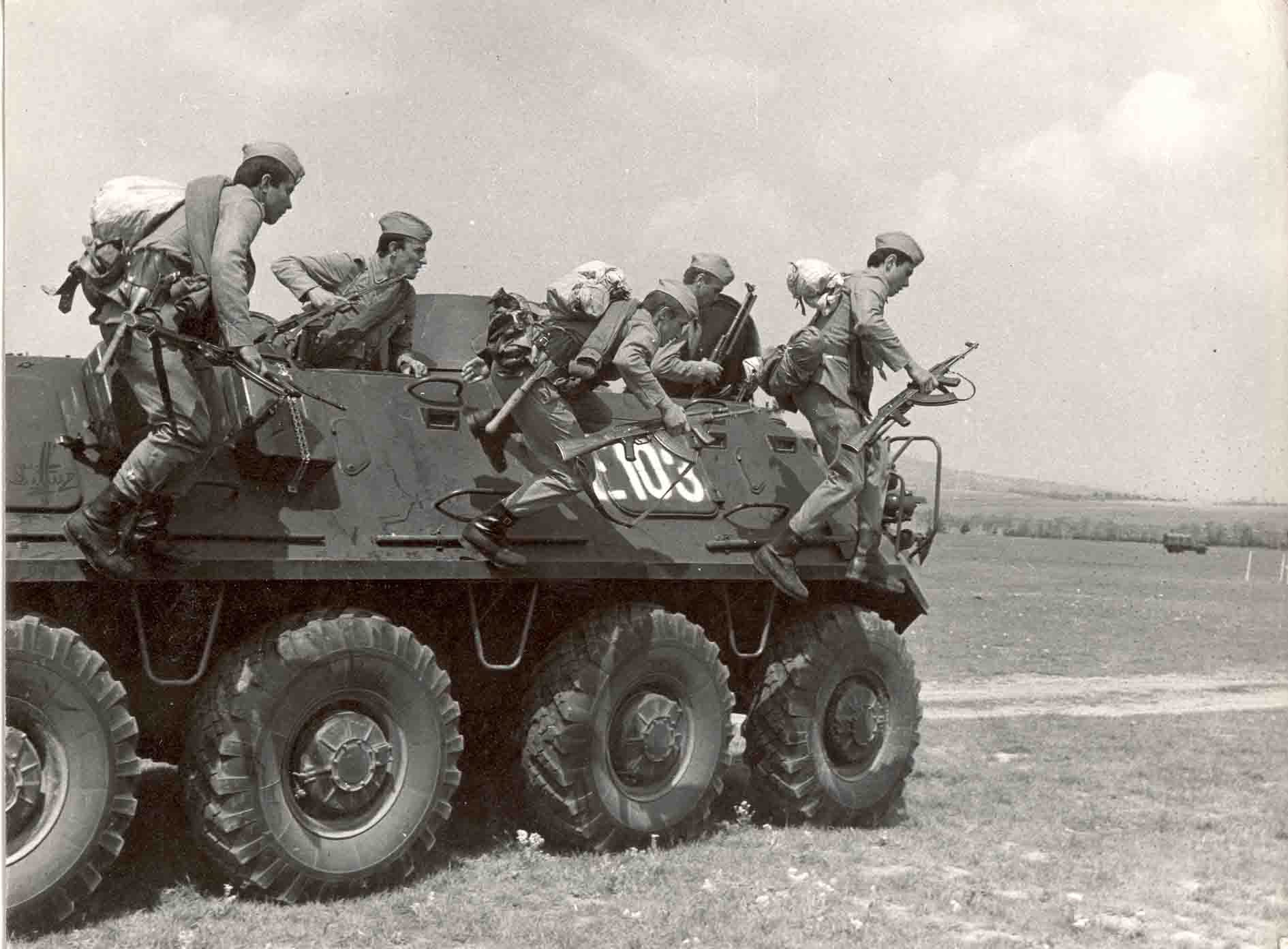 Romanian Border Guards dismounting a TAB-71 APC.